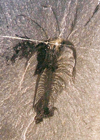 Marrella splendens from the Middle Cambrian Burgess Shale in the collections of the Sedgwick Museum, Cambridge. The characteristic dark stain so often associated with this genus can be seen at the rear and front-left of the organism. An aluminosilicate vein transects the slab at the anterior of the fossil.